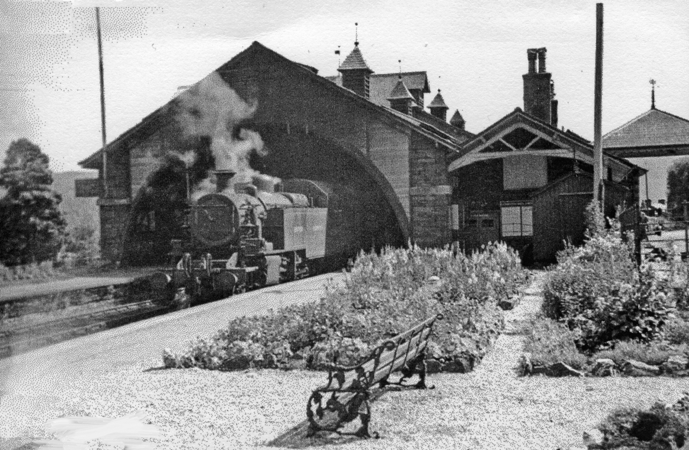 Coniston station, 1951View northward, towards the buffer-stops - which were well beyond the train-shed, of this terminus of the ex-Furness Railway branch from Foxfield, closed 6/10/58 to passengers, 3/4/62 to goods. On the branch-train is an Ivatt LMS class 2 2-6-2T, fitted with Westinghouse pump for auto-train working.